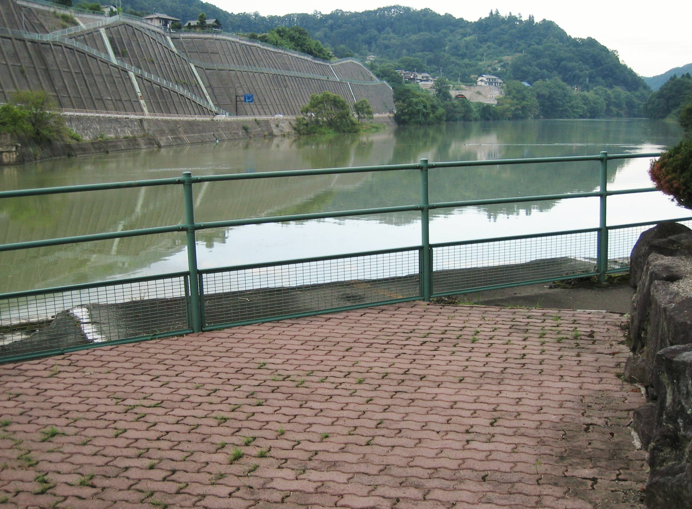 1985 Sai River ski bus accident site.